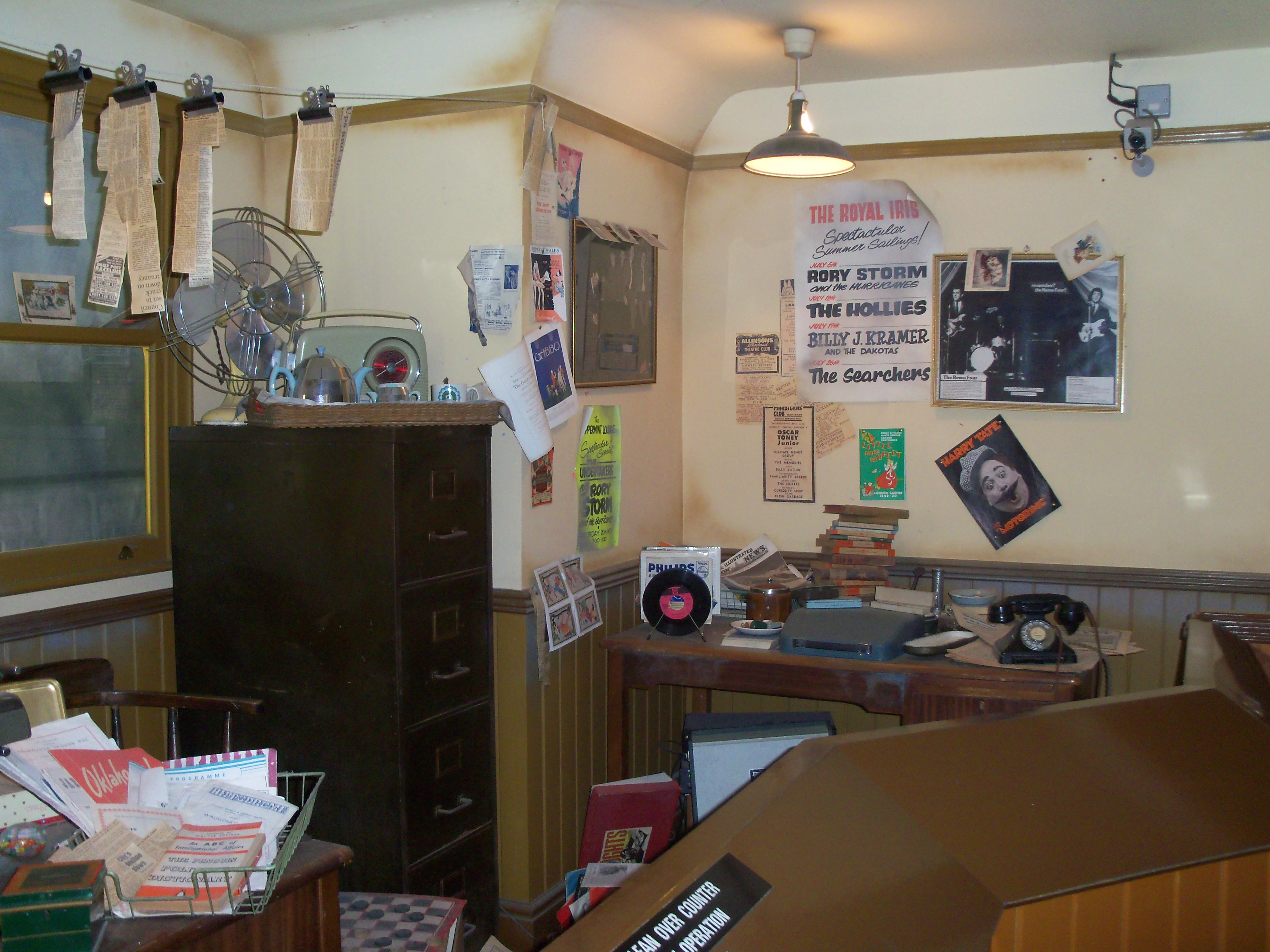 The recreated office of the Mersey Beat newspaper.